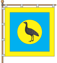 Flag Bobrynets. Kirovograd Oblast Ukraine